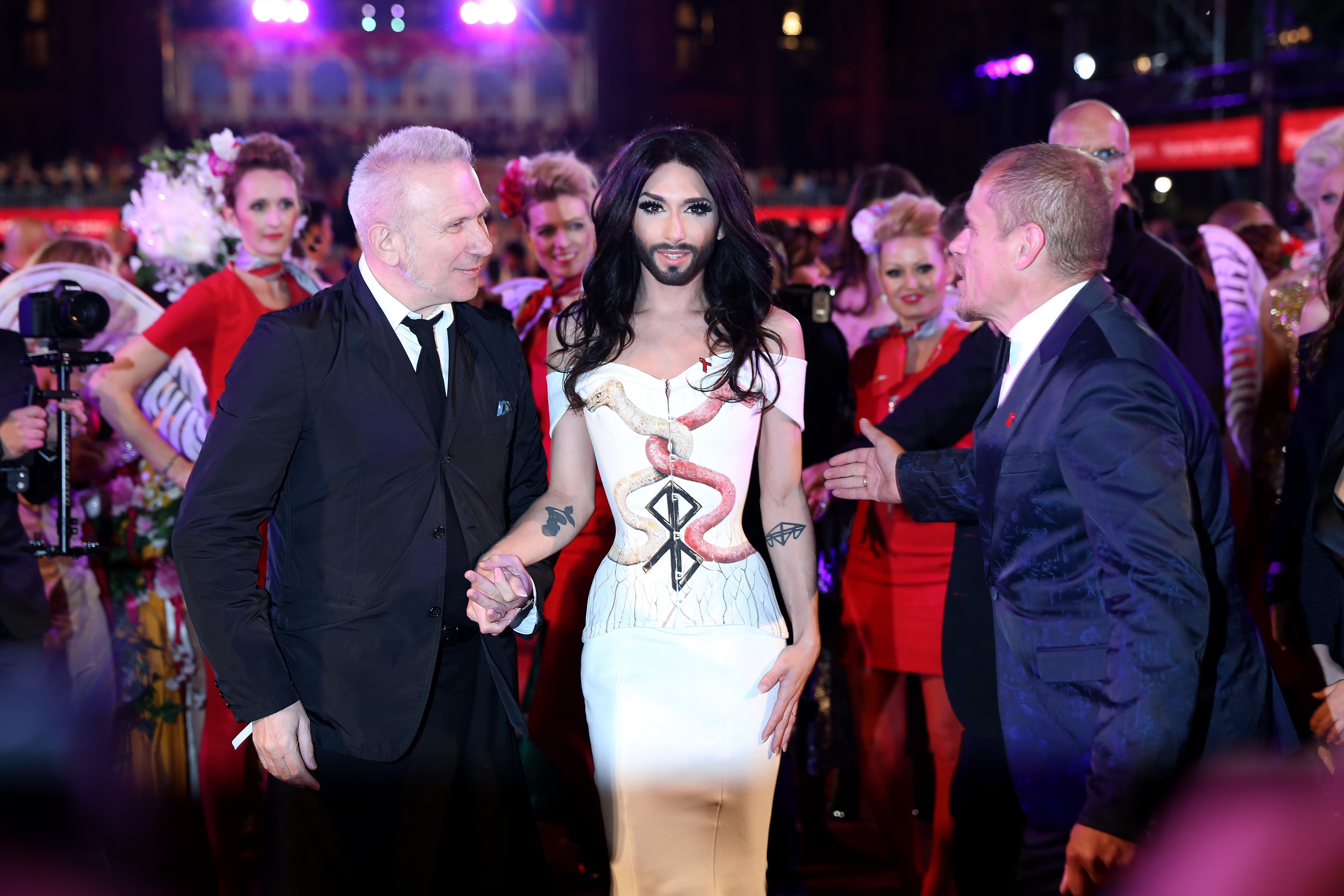 Life Ball 2014: Conchita Wurst, Jean Paul Gaultier (l.) and Gery Keszler (r.) on the red carpet on the square in front of the Rathaus (Town Hall) of Vienna, Austria.